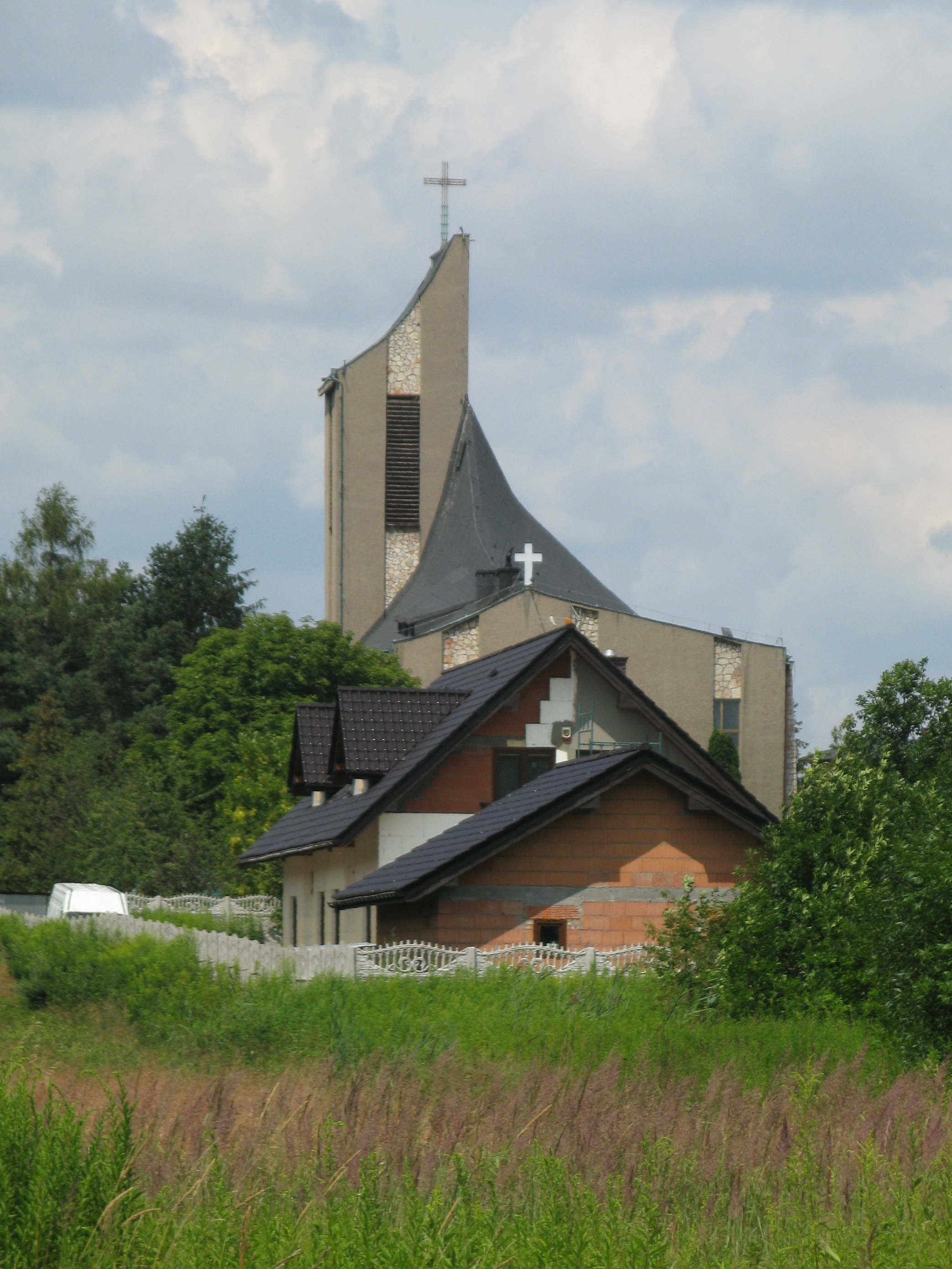 Sacred Heart of Jesus Church in Dobieszowice, Poland.